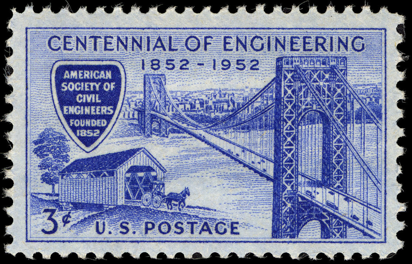 Engineering Centennial - 100th anniversary of the American Society of Civil Engineers (ASCE) - Founded 1852 - 3-cent 1952 issue U.S. stamp. The design features a wooden bridge typical of the 1850s, New York City's George Washington Bridge, which opened in 1931, and the emblem of the American Society of Civil Engineers.